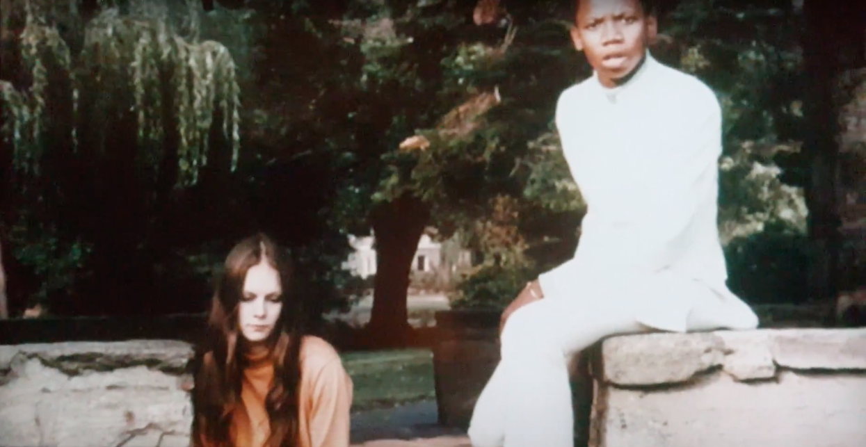 Shelley Plimpton and Ronald Dyson in trailer screenshot for Putney Swope